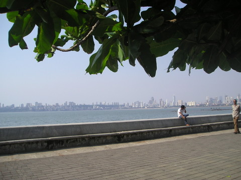 South Mumbai